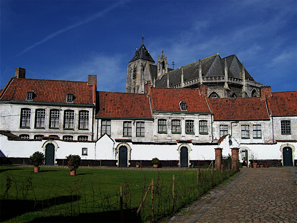 Kortrijk/Courtrai, Béguinage of St Elizabeth and Church of Our Lady.